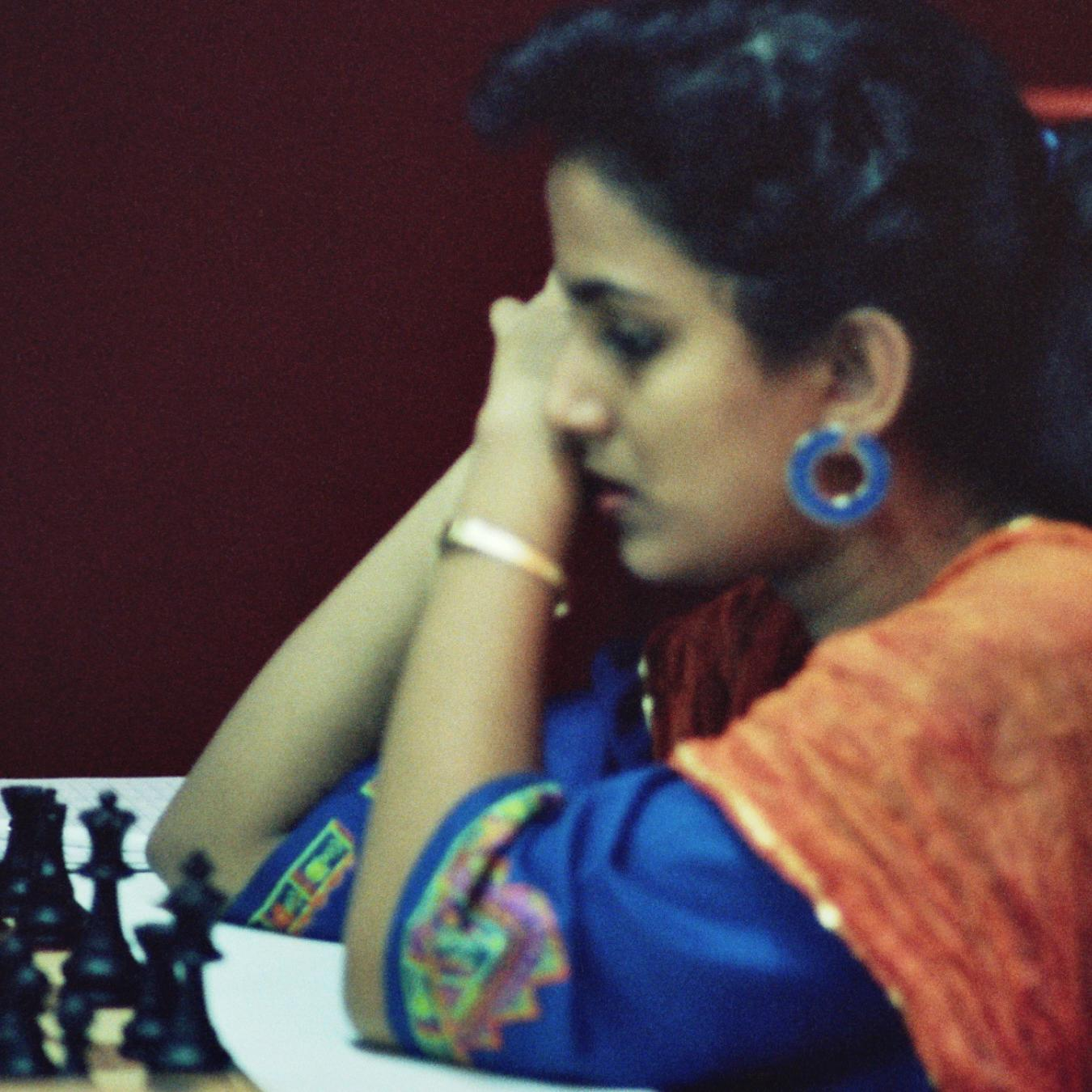 Reddy Saritha (India, board 2), Chess Olympiad 1992, Photographer Gerhard Hund.